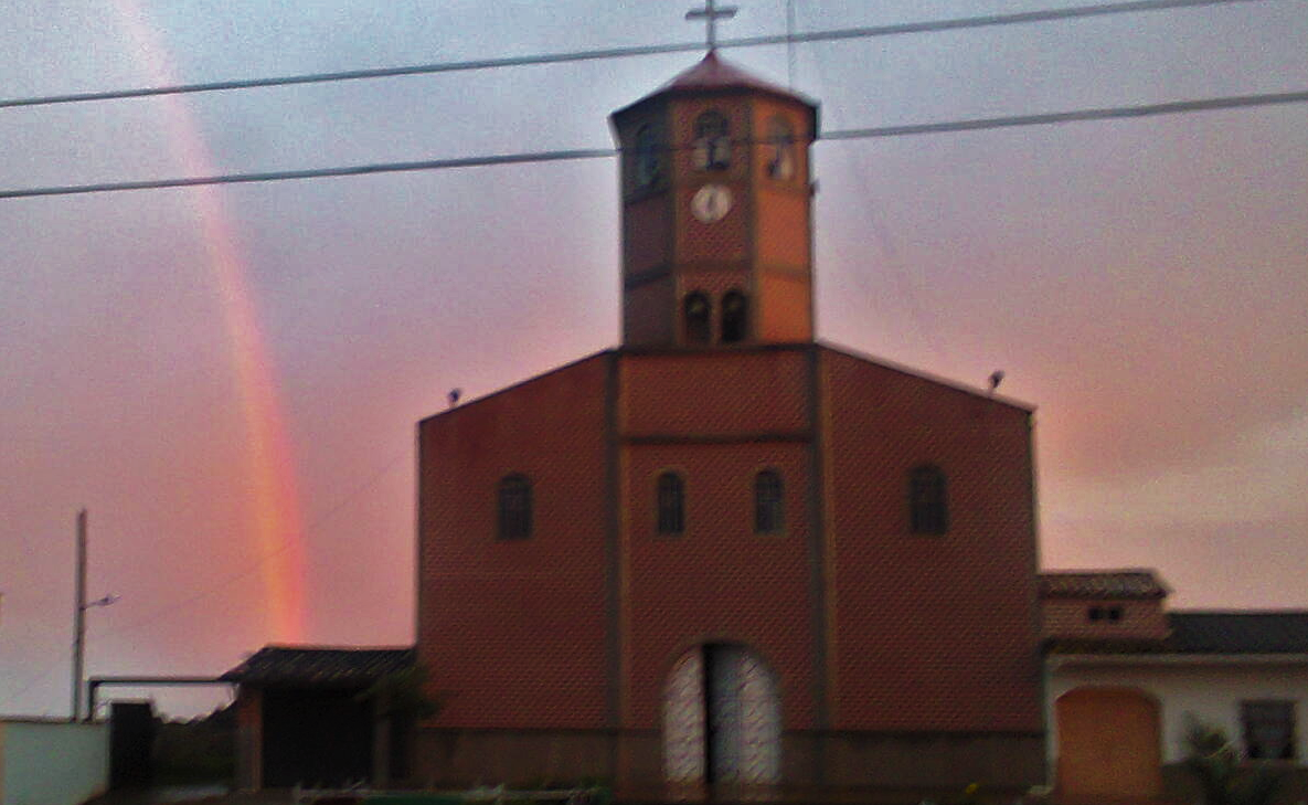 Llanos de Cuivá